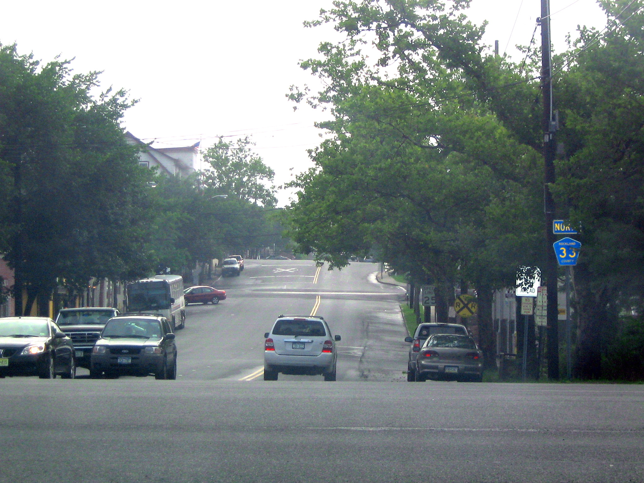 CR 33 begins here at NY 304, and proceeds east through Pearl River before turning north on Middletown Road.